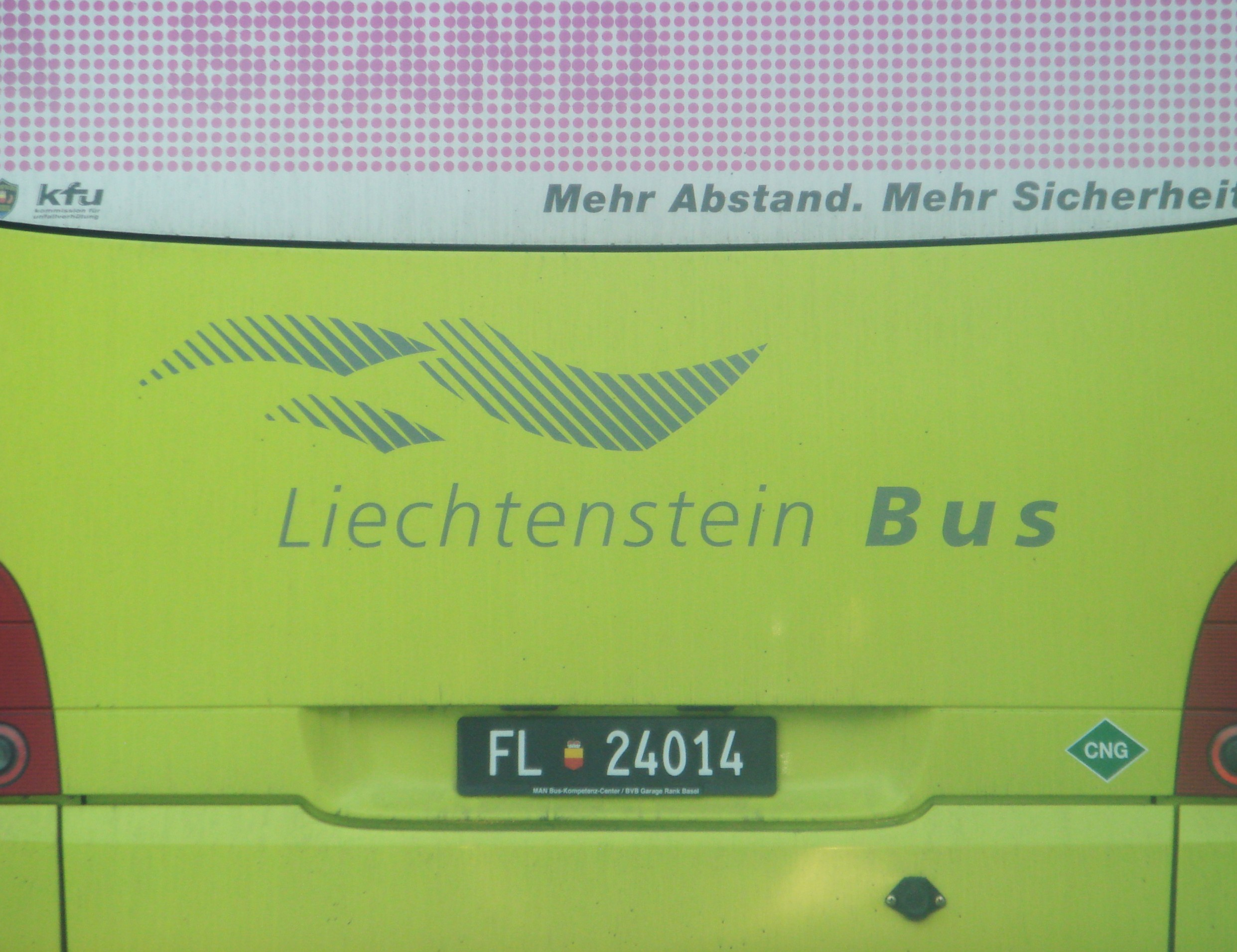 The back of a Liechtenstein Bus CNG-powered MAN bus.